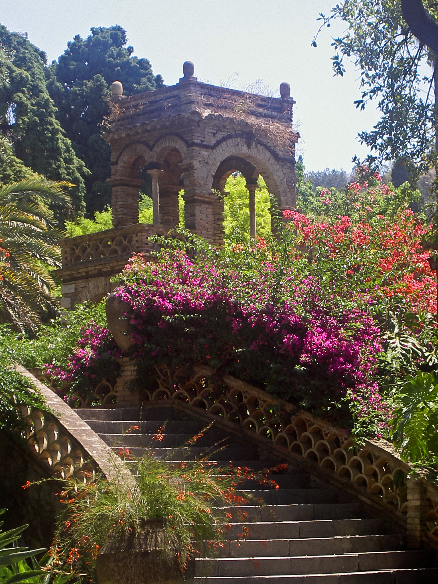 Public gardens in Taormina (Italy). Architectural capriccio in the late Romantic taste. Picture by Chiara Ievolella.